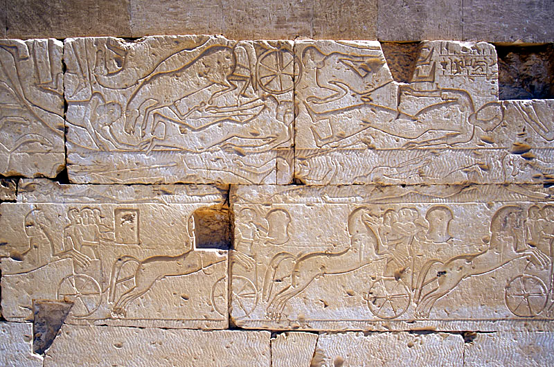 Western outer wall: showing Qadesh battle, Temple of Ramesses II, Abydos, Egypt